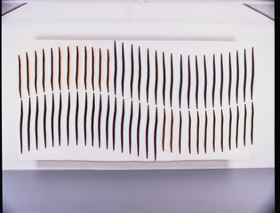 Lundebrekke_MetronI: skal krediteres fotografen Jon Hauge